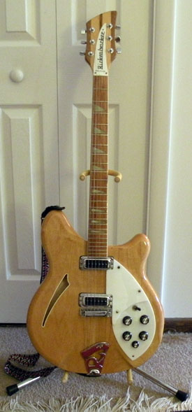 Picture of my Rickenbacker 360 6-string Mapleglo guitar taken on March 21, 2009. This electric semi-hollow body with "Rick-O-Sound" was manufactured in October of 1989 by the Rickenbacker International Corporation in Santa Ana, California. Features include: Maple neck with dual truss rods, rosewood fingerboard inlaid with triangle pearloid markers, single-coil pickups, 3-way selector for each pickup, stereo output. Also, I got the back of the "Rickenbacker" nameplate signed by Roger McGuinn after his performance in King of Prussia, Pennsylvania, on July 29, 2001.